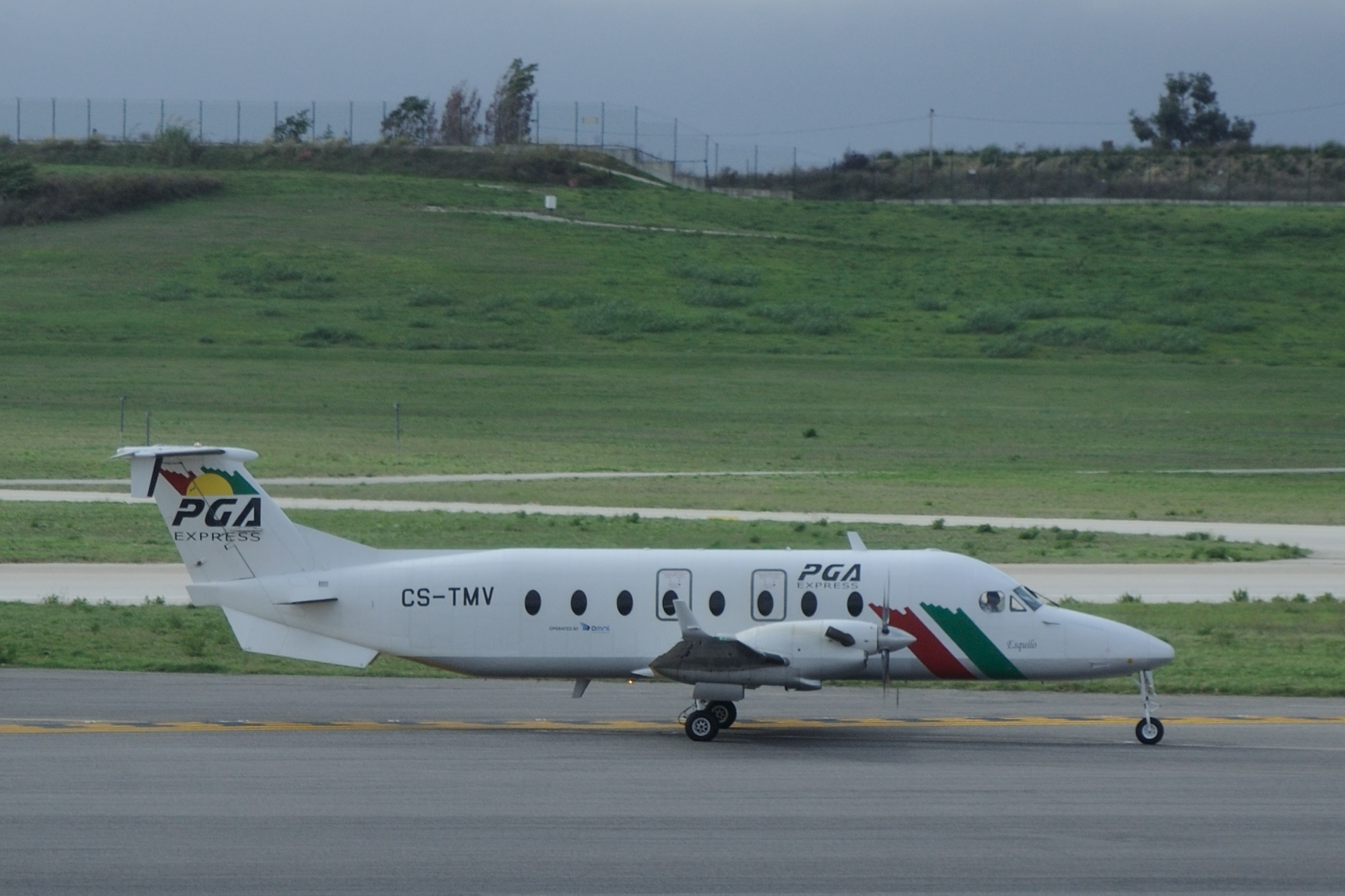 Portugal, spotting at Lisbon Portela Airport